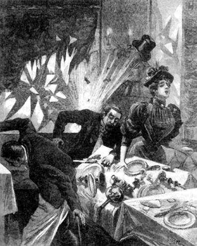 Drawing from Le Petit Journal depicting the bombing of the Restaurant Foyot in Paris on April 4, 1894.